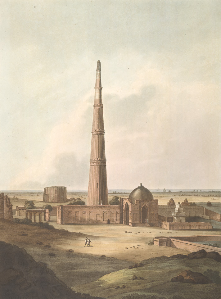 Kuttull Minor, Delhi. The Qutb Minar, an aquatint by Thomas Daniell, 1805